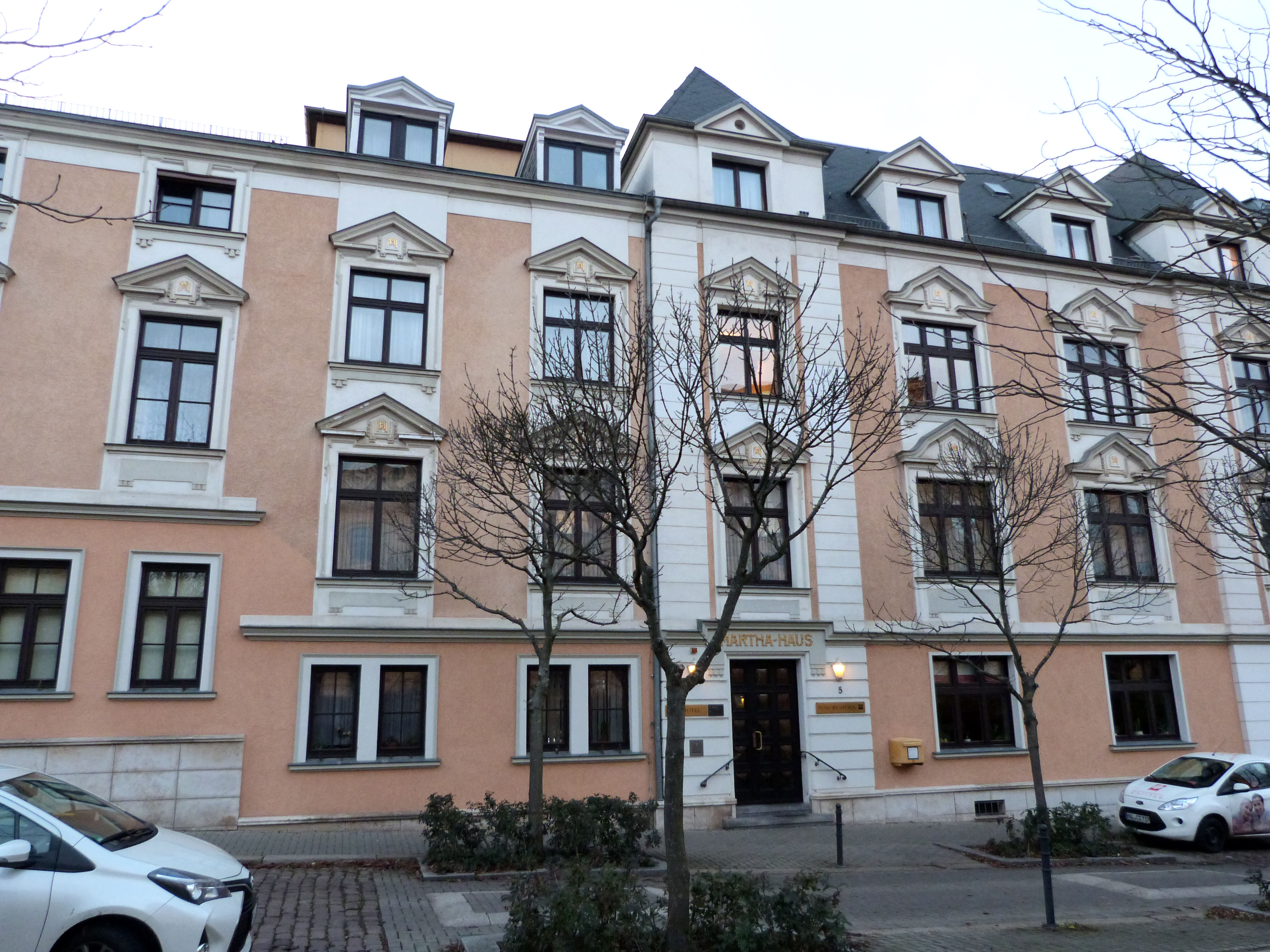 House No. 5 Adam-Kuckhoff-Strasse in Halle (Saale), residential complex "Marthahaus" (Hotel, assisted living, nursing home)